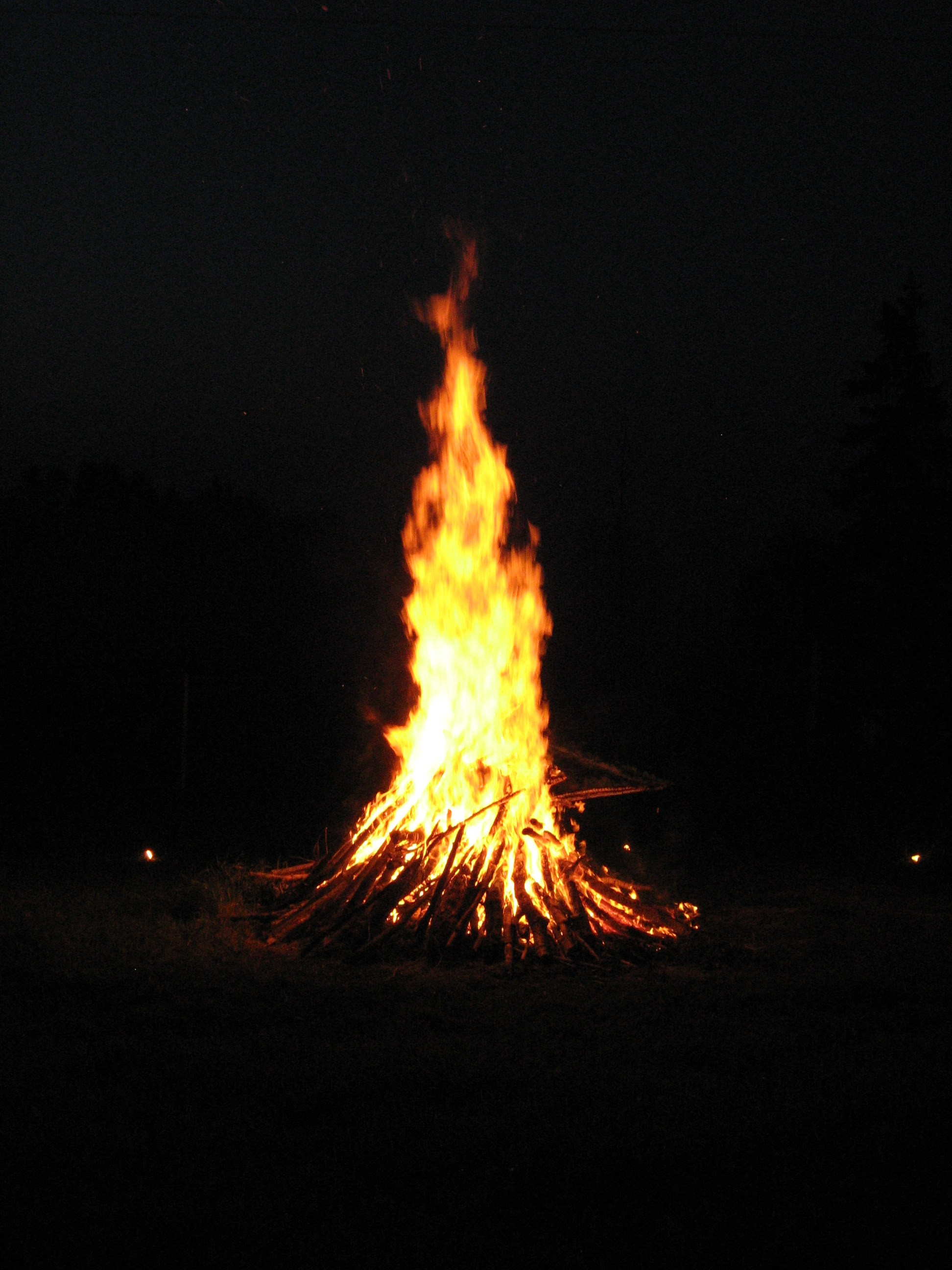 Picture of a campfire over black background